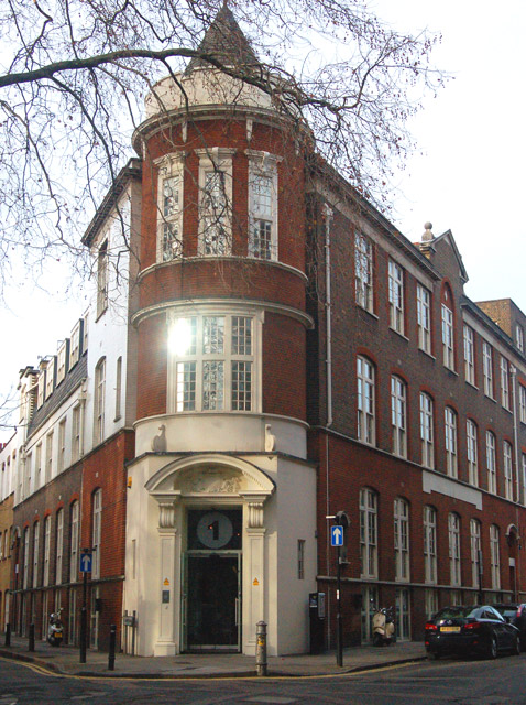 Corner of Sekforde Street and Clerkenwell Green, London EC1